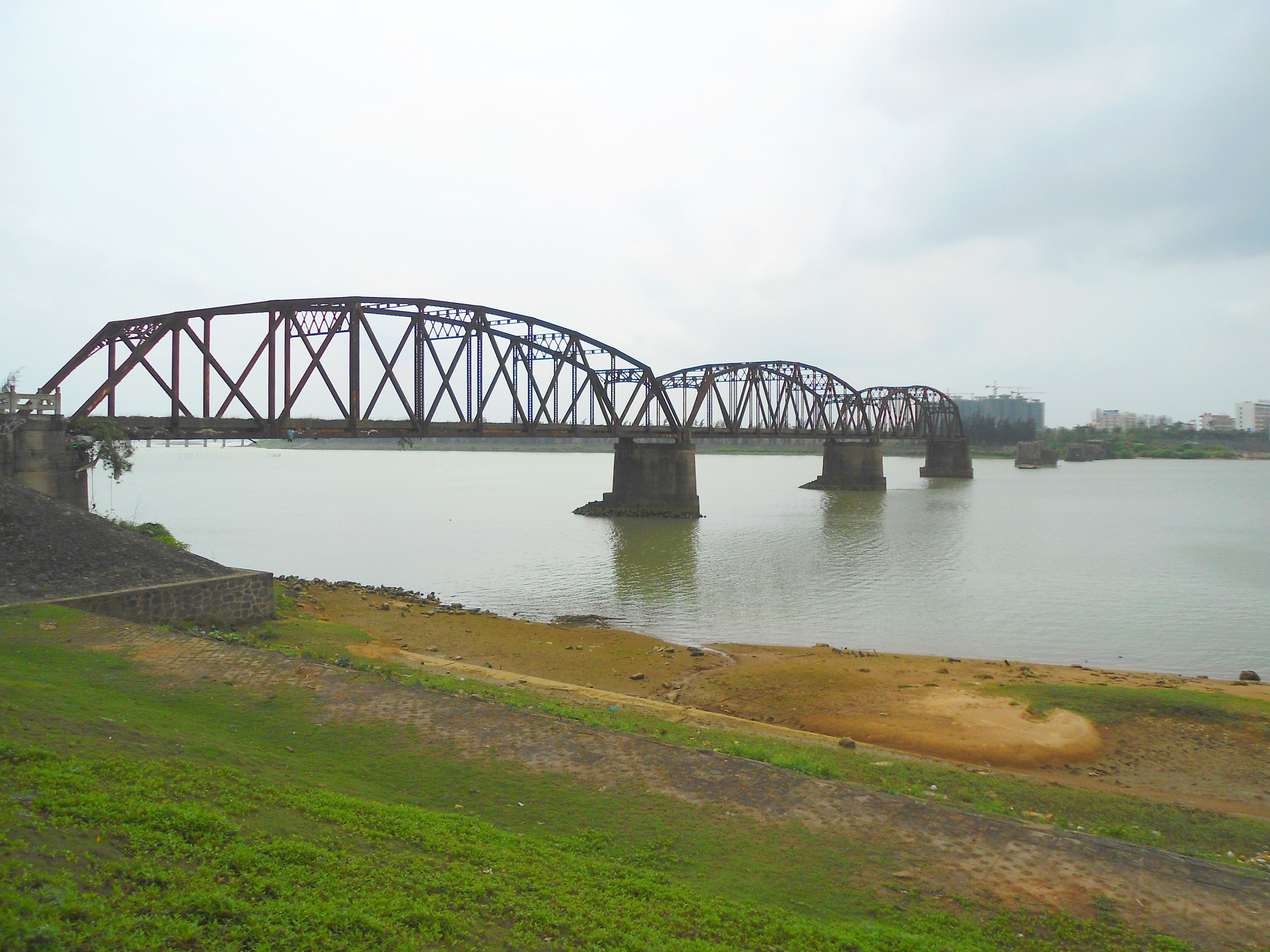 Bridge built by Japanese over Nandu River during WWII, now collapsed, Hainan Province, People's Republic of China.